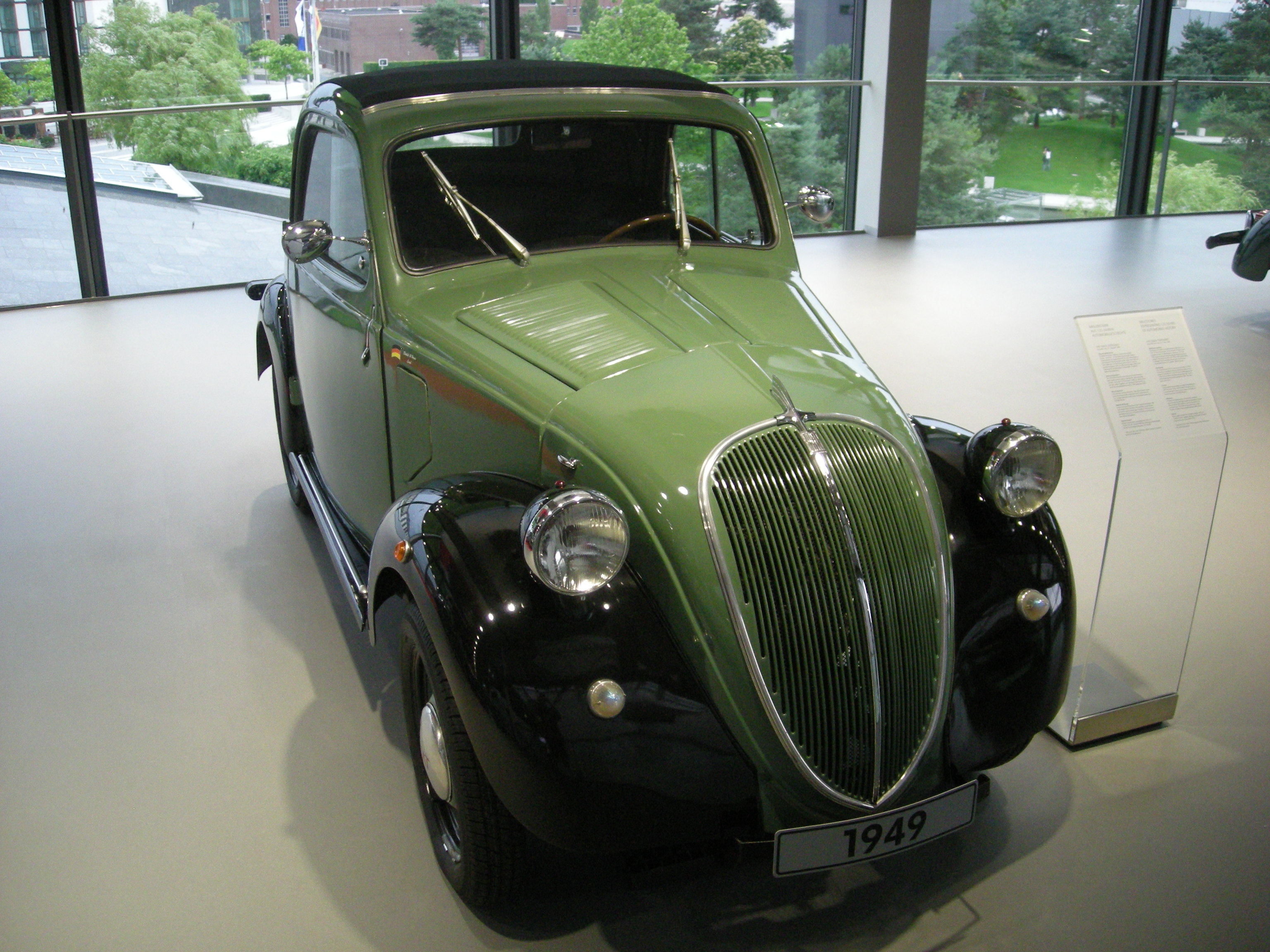 A 1949 Fiat 500 B Topolino inside the ZeitHaus at Autostadt in Wolfsburg, Niedersachsen (Germany).